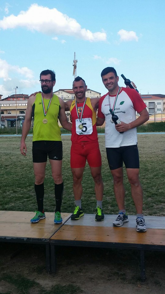 DECATHLON ITALY M40 PODIUM 2016